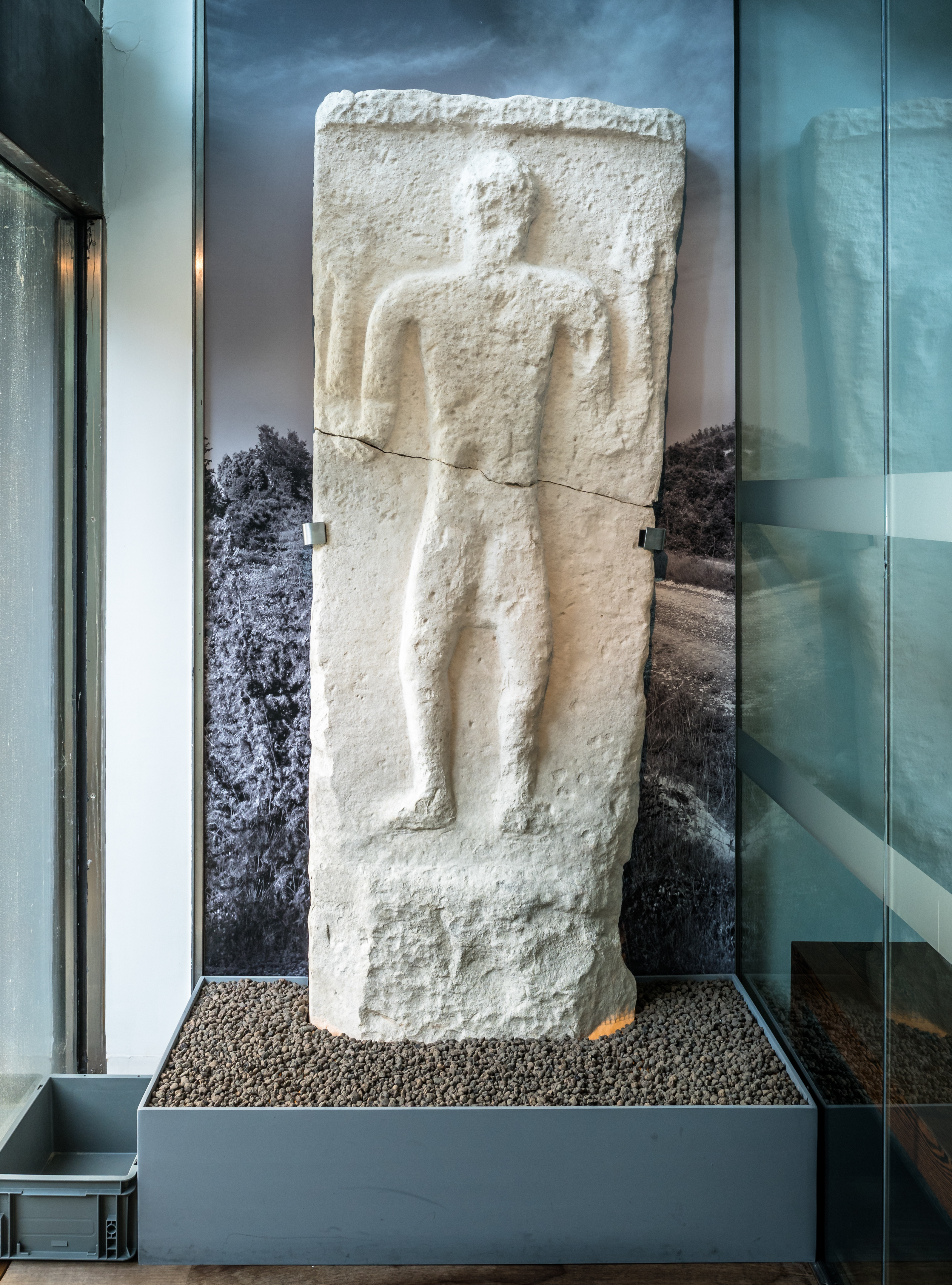 El Canto de Dordóniz: a block of lime stone of 2,36 x 0,80 x 0,17 m that was arranged at a way cross near the locality of Dordóniz in Treviño County. Currently (2018) exhibited at the Archeological Museum of Vitoria-Gasteiz. Basque Country, Spain